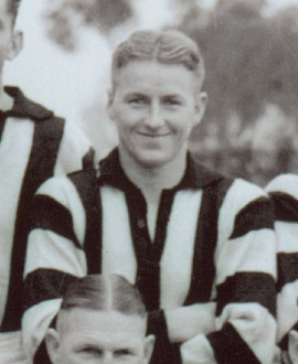 Photograph of Clarrie Shields in 1939